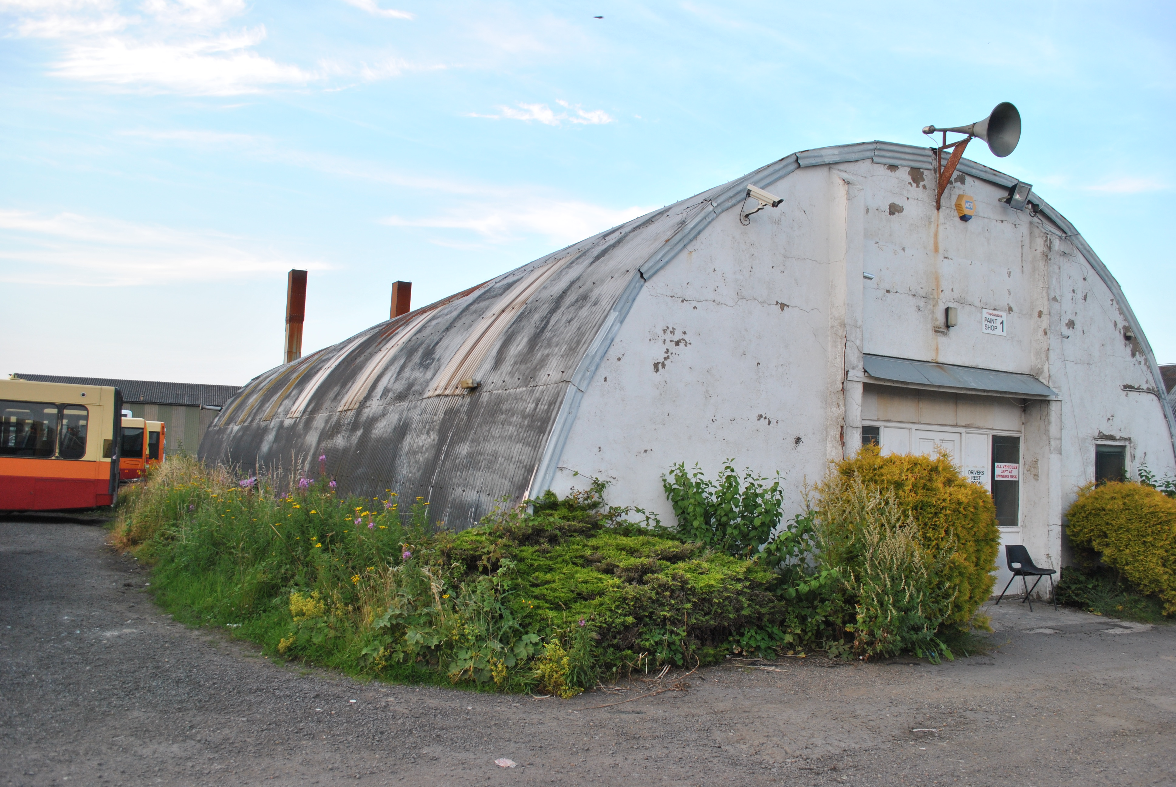 RAF Tholthorpe. Romney Hut. RAF Tholthorpe was 2 miles west of Easingwold. It opened in August 1940 in No 4 Group as a satellite for Linton-on-Ouse and was developed in 1942-3 into a full bomber airfield and allocated to No 6 (RCAF) Group as a sub-station for... more